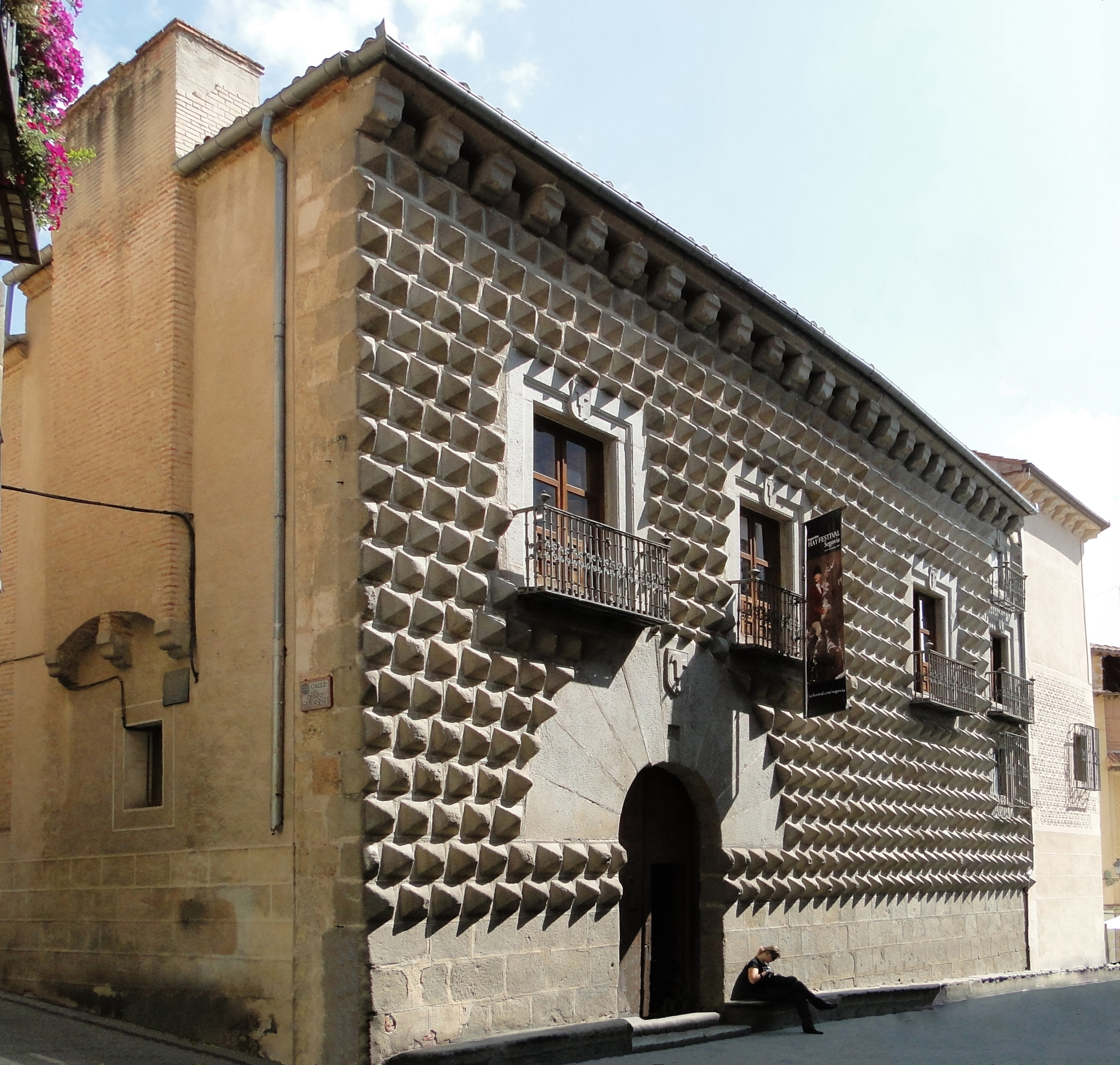 Casa de los Picos (15th century), Segovia, Spain.